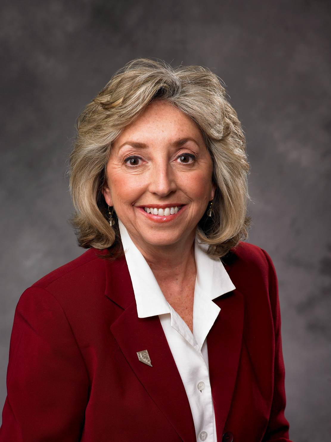 Official photo of Congresswoman Dina Titus (D-NV).